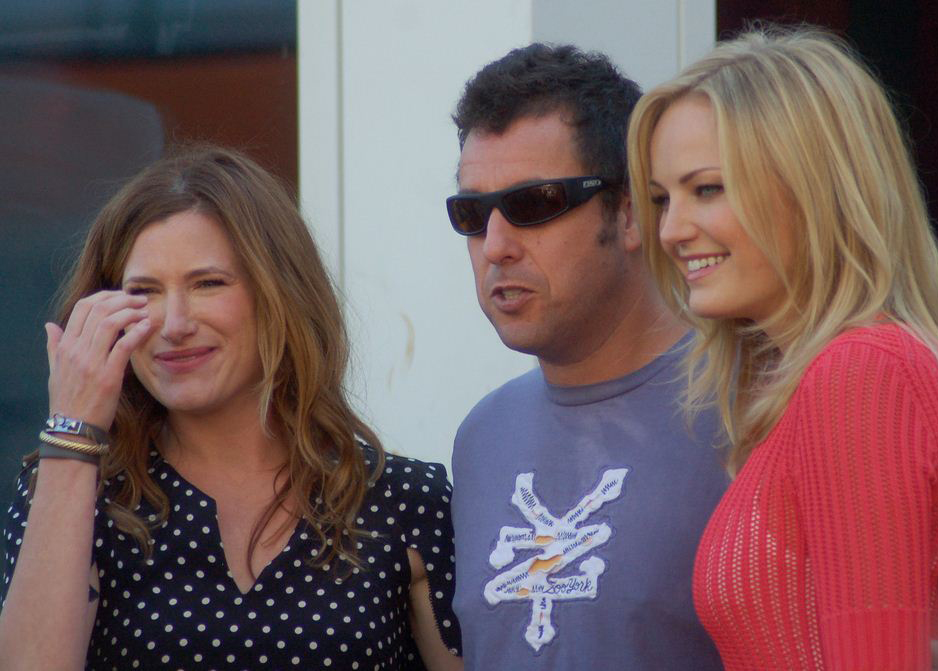 Kathryn Hahn, Adam Sandler, and Malin Åkerman at a ceremony for Jennifer Aniston to receive a star on the Hollywood Walk of Fame.